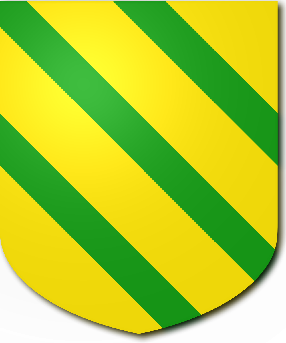 Marmora family shield